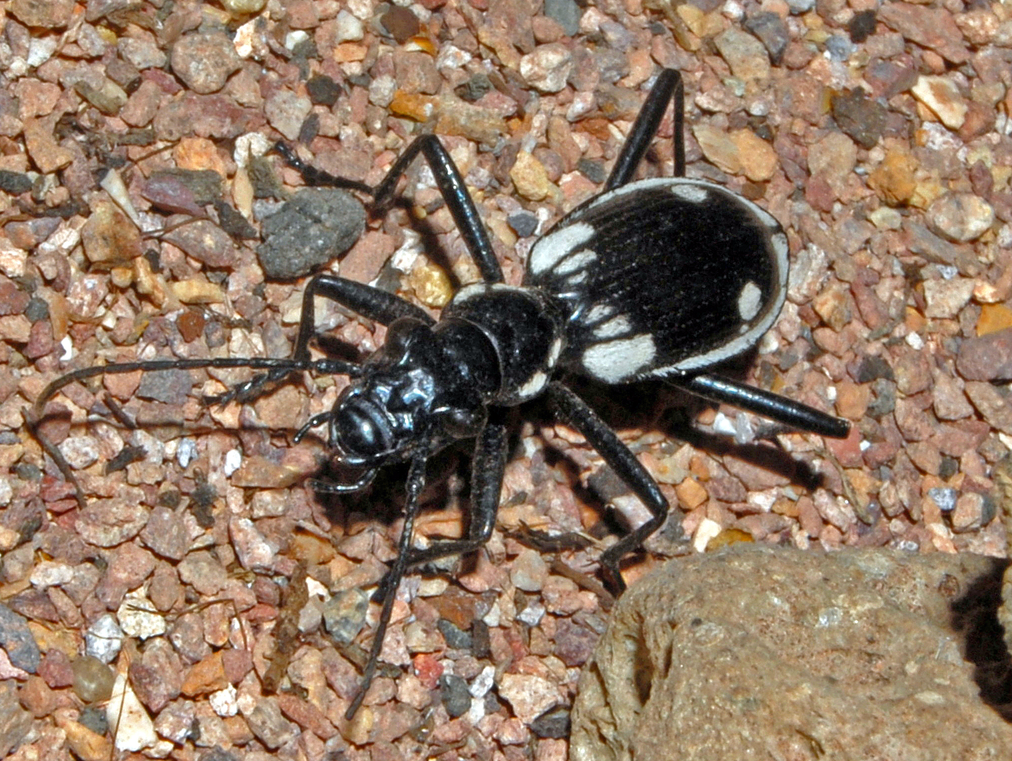 Anthia sexmaculata. North Africa